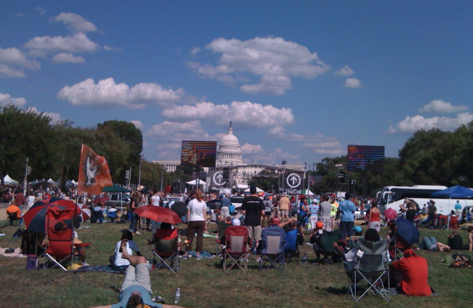 Long view of The Call stage 2008, Washington, D.C., USA